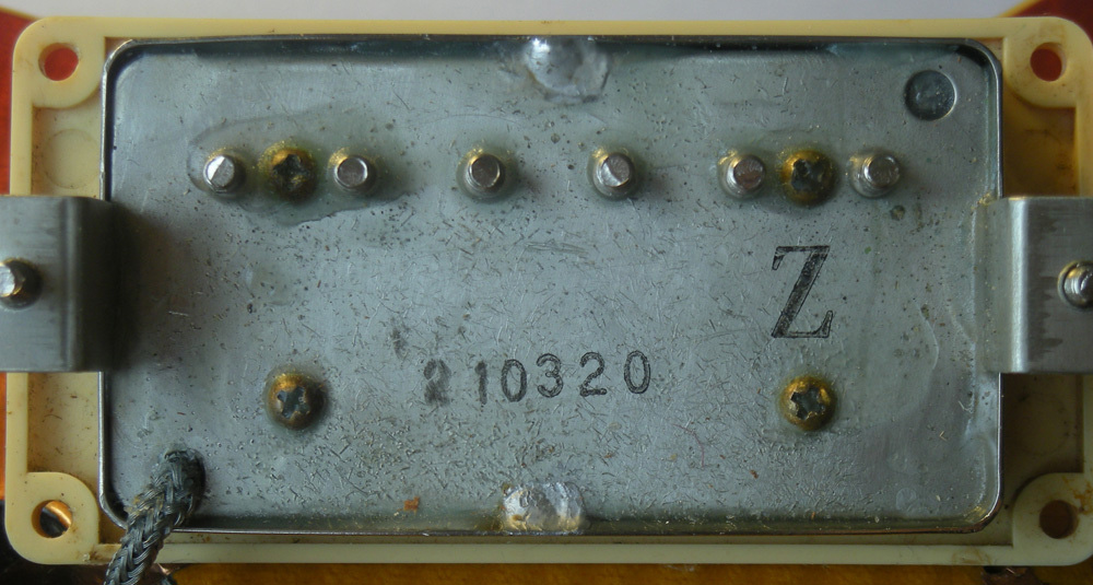 A 1981 Greco/Maxon Dry Z pickup.